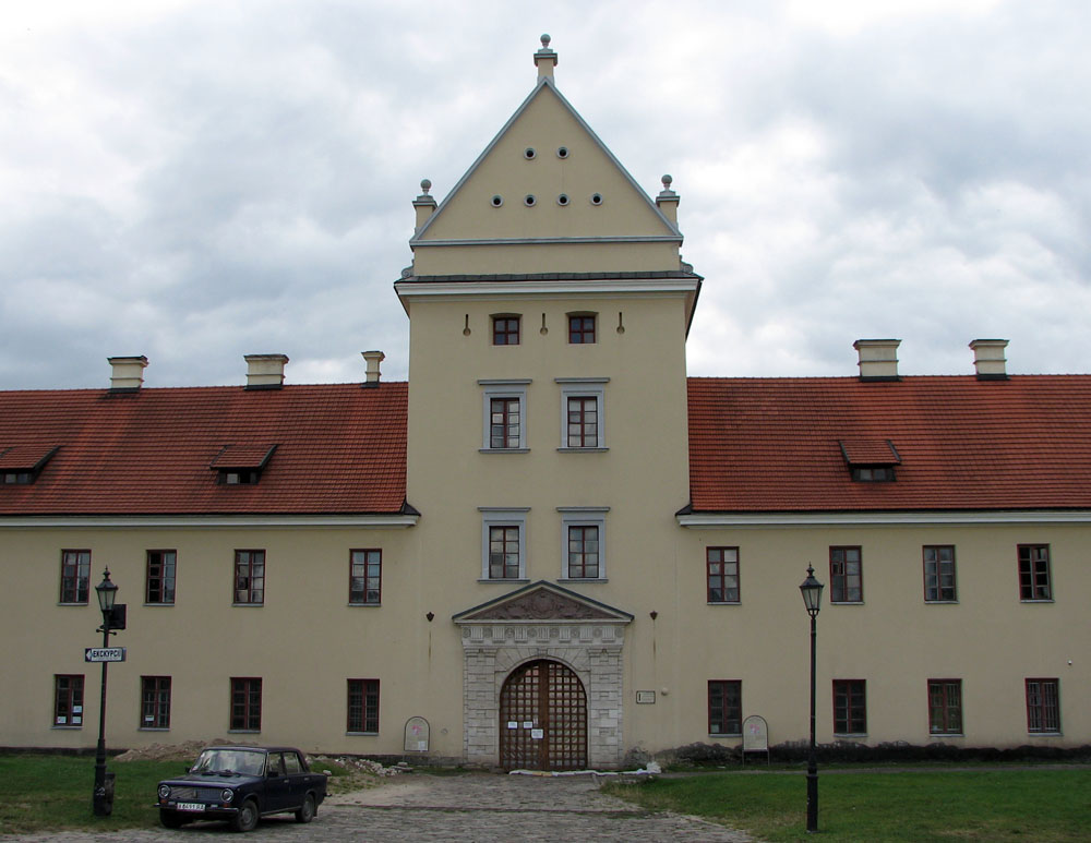 Renaissance castle in Zhovkva, Lviv Region.